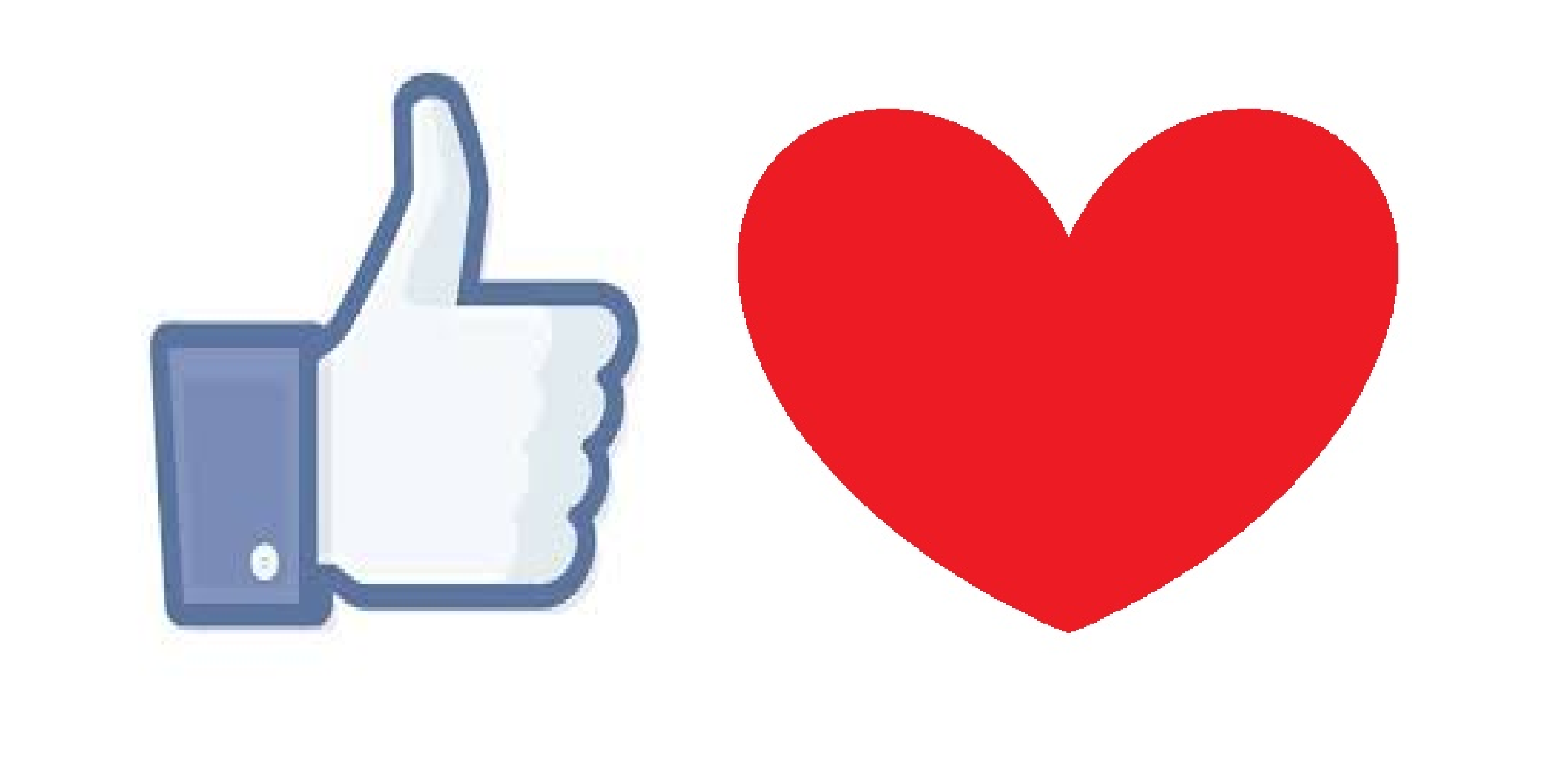 Symbol of the friendzone, the rejection of the love of one of the parties.